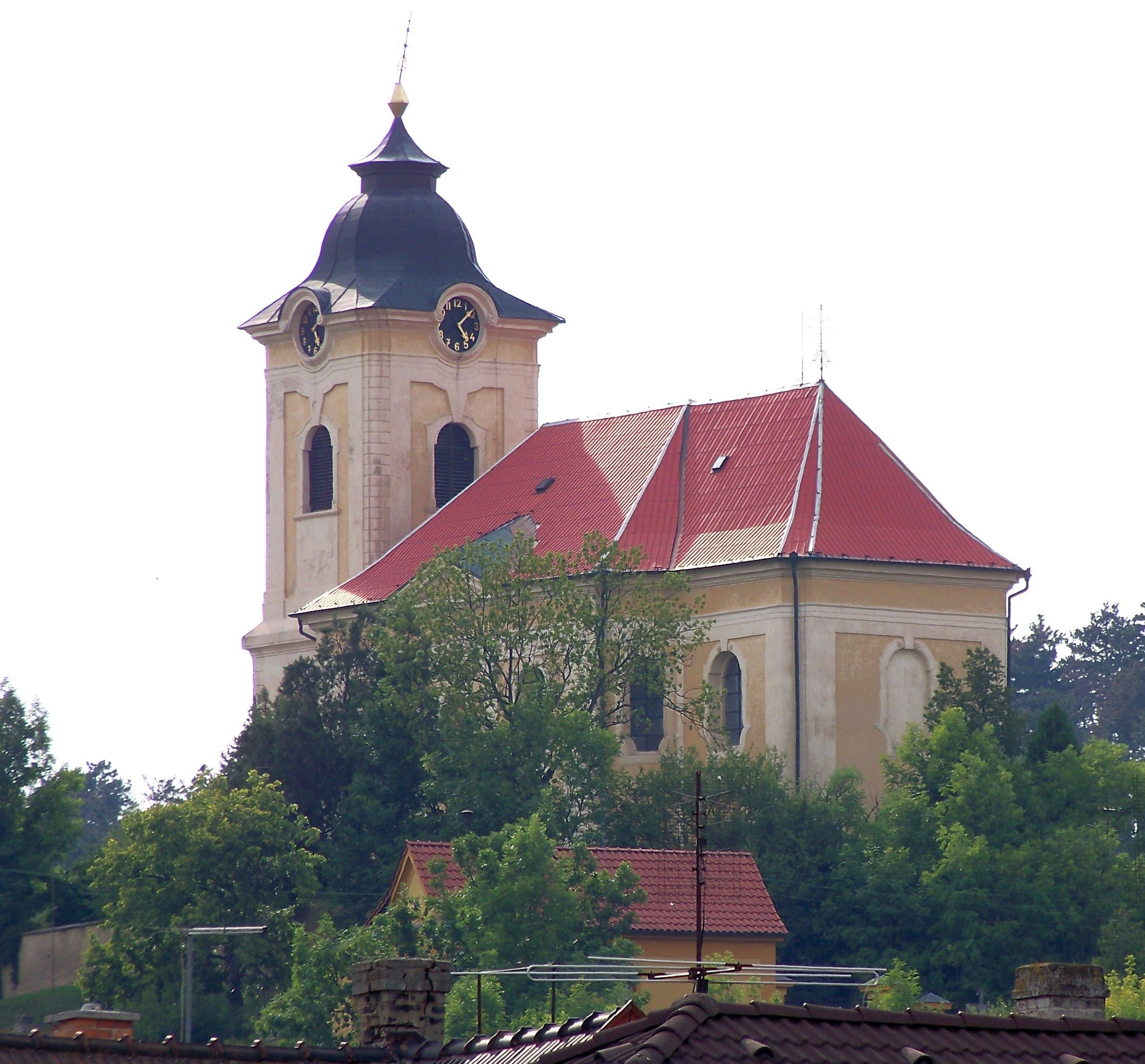 Králův Dvůr-Počaply, Beroun District, Central Bohemian Region, the Czech Republic. Assumption Church.